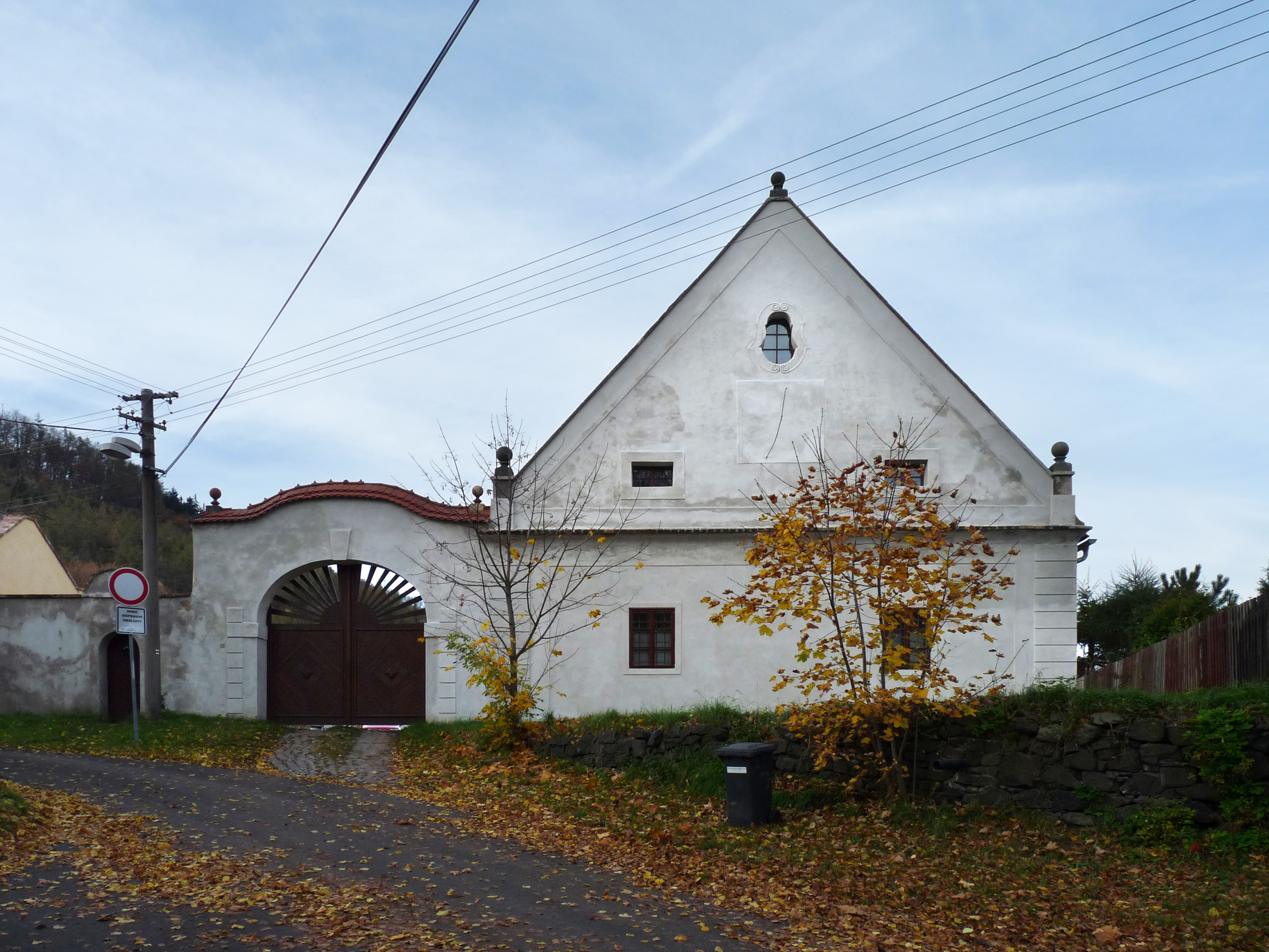 House No 1 in Lestkov near Klášterec nad Ohří, Chomutov District, Czech Republic